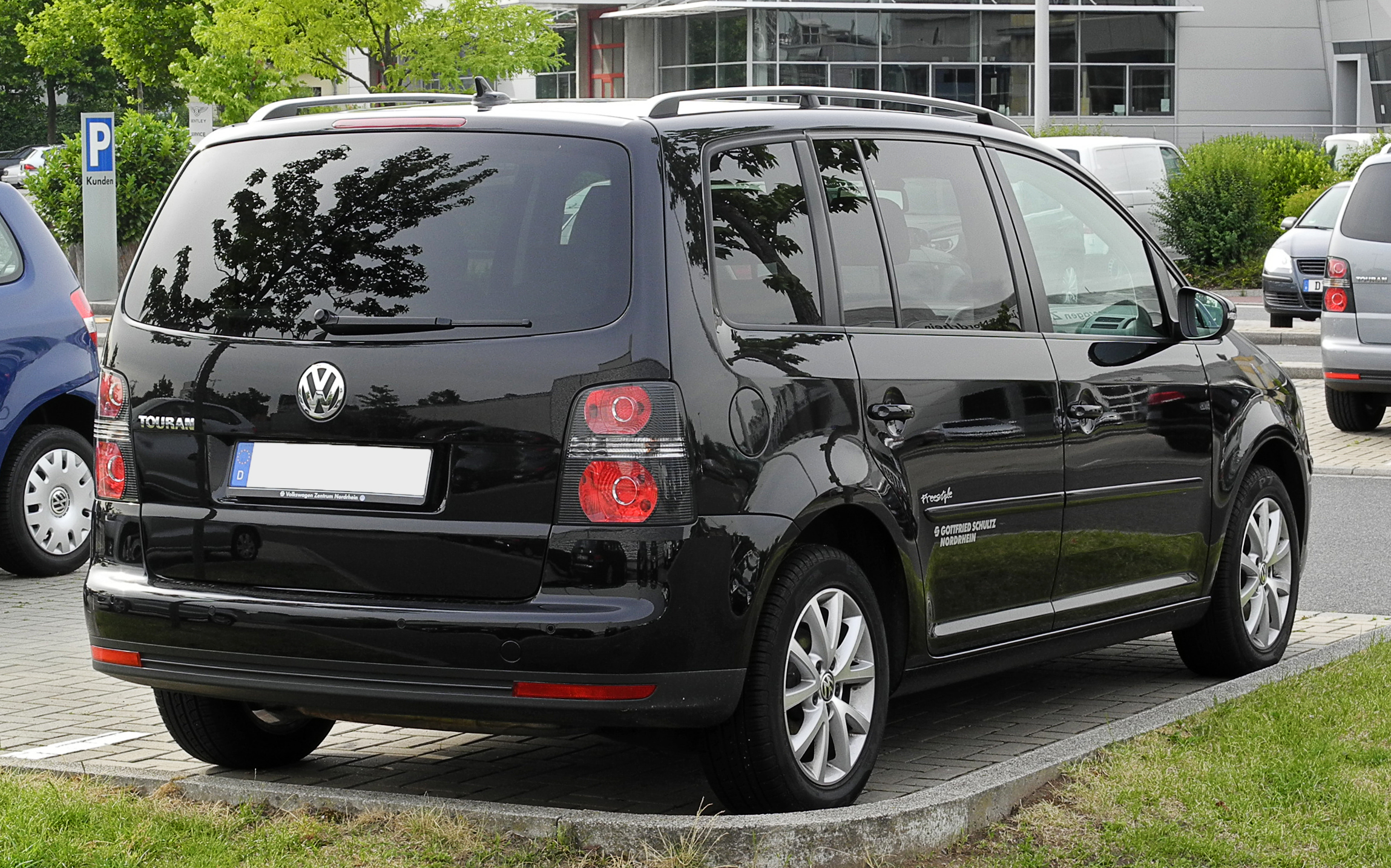 VW Touran Freestyle (1. Facelift)